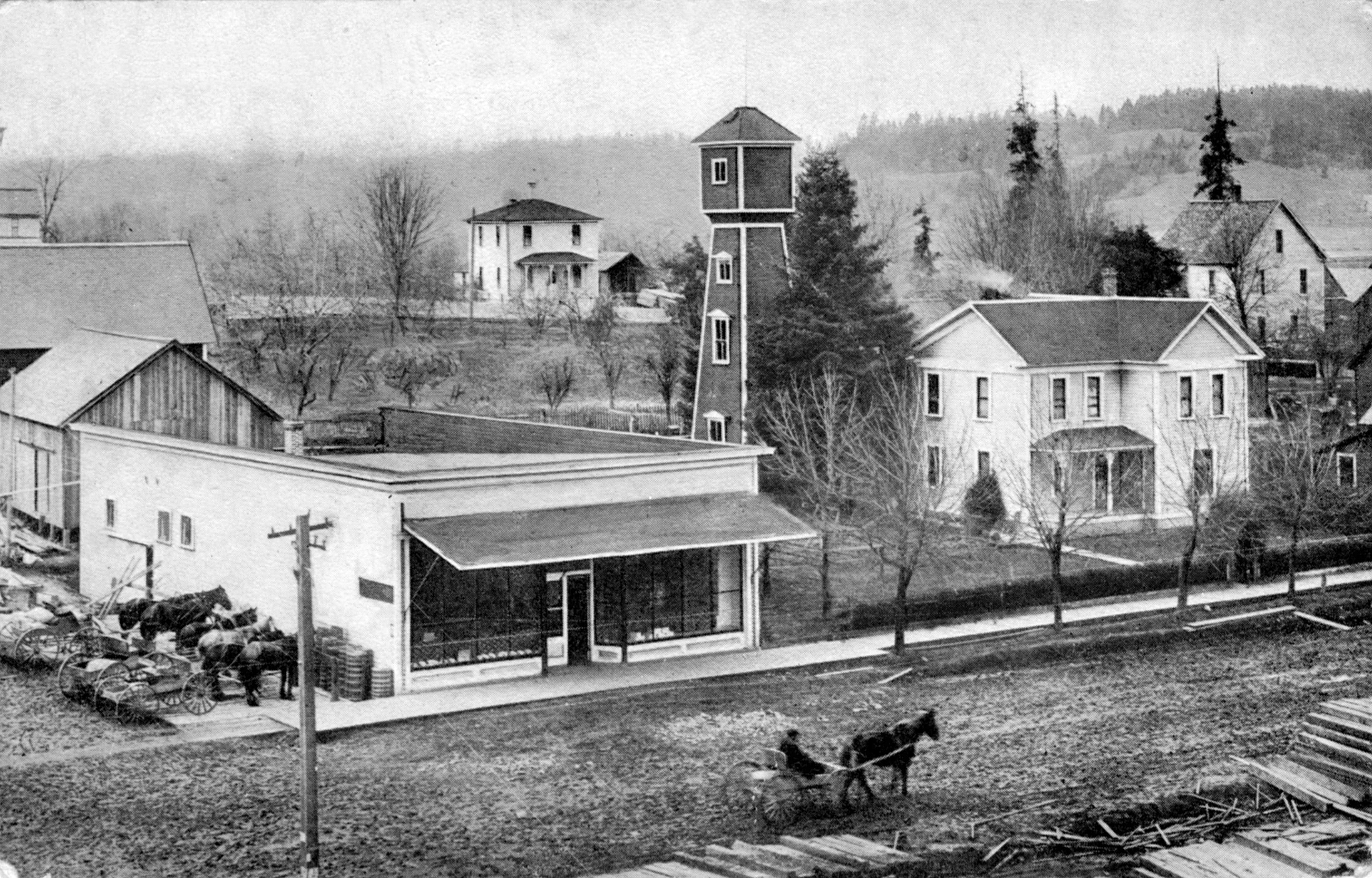 Main Street, Gaston, Oregon. Original Collection: Gerald W. Williams Collection, 1855-2007 Item Number: WilliamsG: WVgastonstreet You can find this image by searching for the item number by clicking here. Want more? You can find more digital resources online. We're happy for you to share this digital image within the spirit of The Commons; however, certain restrictions on high quality reproductions of the original physical version may apply. To read more about what “no known restrictions” means, please visit the Special Collections & Archives website, or contact staff at the OSU Special Collections & Archives Research Center for details.